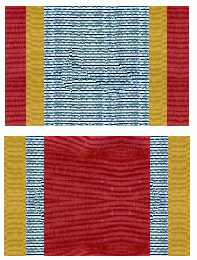 Two batons of the Coss of Military Merit of Mecklenburg-Schwerin